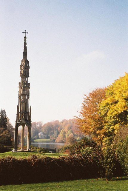 Stourton: Bristol High Cross The Bristol High Cross, Stourton, with the Pantheon in Stourhead Gardens in the background. The Cross was moved from Bristol to the Stourhead garden entrance in 1765.